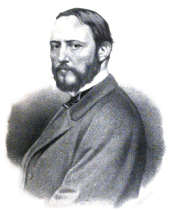 Juan Prim, prime minister of Spain